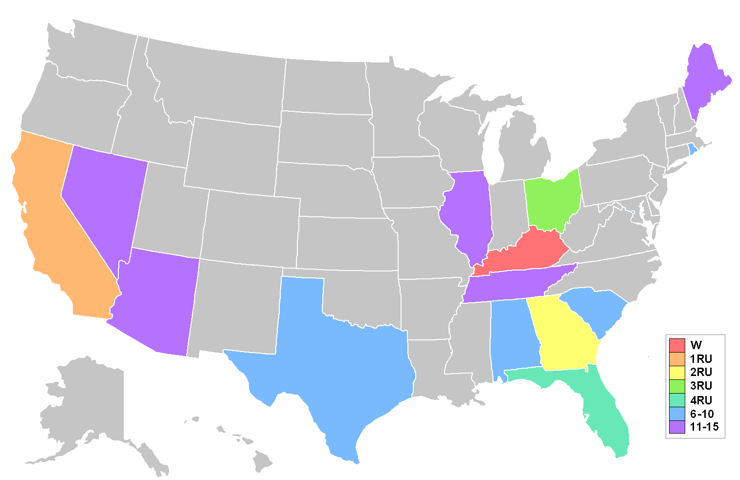 Map showing placements at the Miss USA 2006 pageant. Key on graphic shows colour coding for break down of placements.